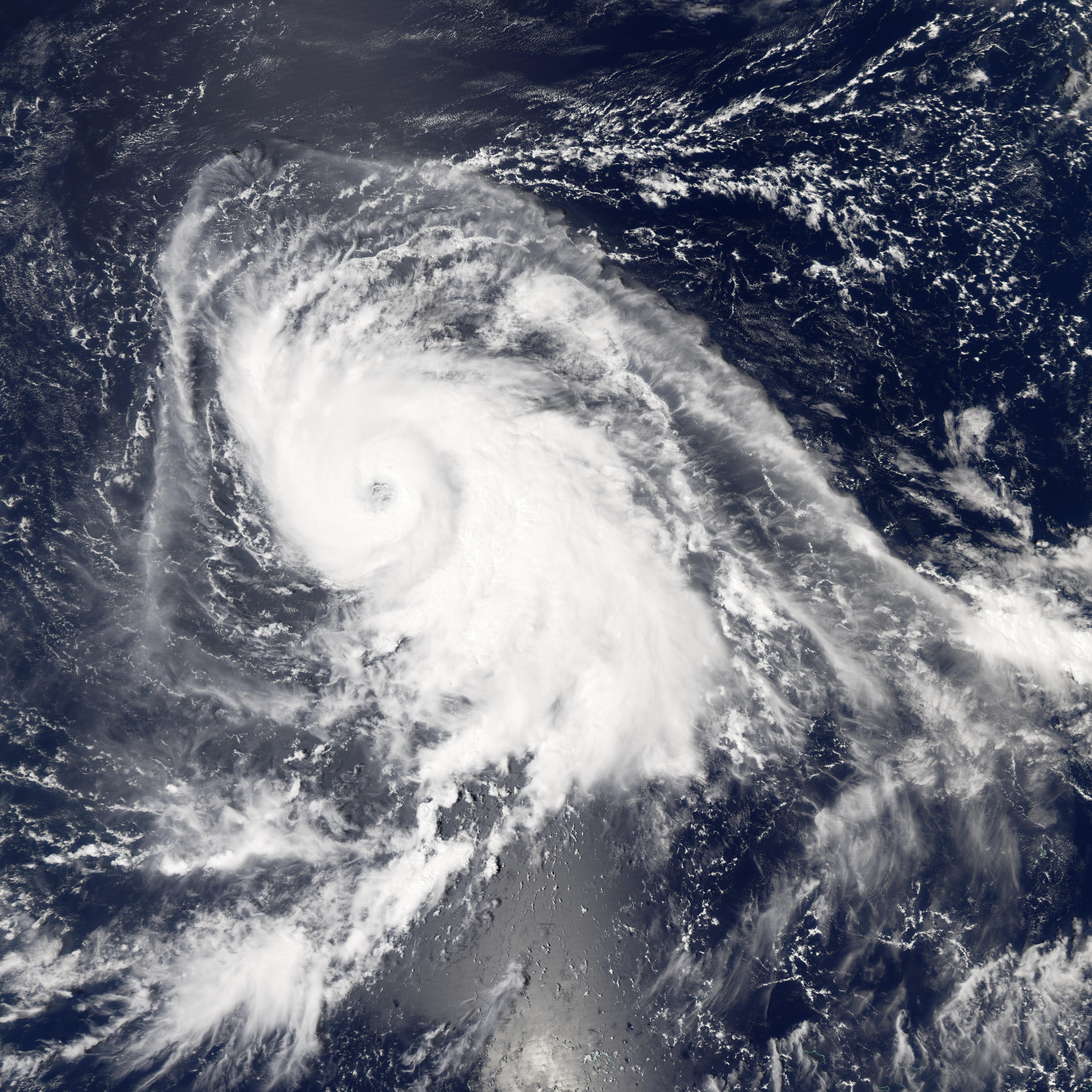 Typhoon Yagi (the Japanese word for goat) formed as a tropical depression (area of low air pressure) in the northwestern Pacific Ocean on September 17, 2006. The depression gained power swiftly, reaching typhoon status by late on September 18, and as of September 20, Yagi was a powerful Category 3 typhoon. According to the Joint Typhoon Warning Center, Yagi was predicted to come close to the Japanese mainland by September 23 or 24, not directly passing over land, but bringing storm weather to Tokyo. Yagi, the sixteenth named storm of the Pacific typhoon season, was whipping up the seas with wave heights as much as 11.6 meters (38 feet) in the heart of the storm, driven by winds gusting as high as 230 kilometers per hour (144 miles per hour). This photo-like image was acquired by the Moderate Resolution Imaging Spectroradiometer (MODIS) on NASA’s Terra satellite on September 19, 2006, at 1:10 p.m. local time (04:10 UTC). In this image, Yagi is a large, sprawling storm system with long spiraling arms, a tightly wound central portion, distinct eyewall, and a cloud-filled eye. These are all hallmarks of a powerful typhoon, and Yagi was predicted to continue to gather size and power as it travelled across the open, warm waters of the Pacific Ocean. It was not predicted to make significant landfall in its arc towards Japan, though a number of Pacific Islands, such as Iwo Jima, may see very severe weather as Yagi passes nearby.